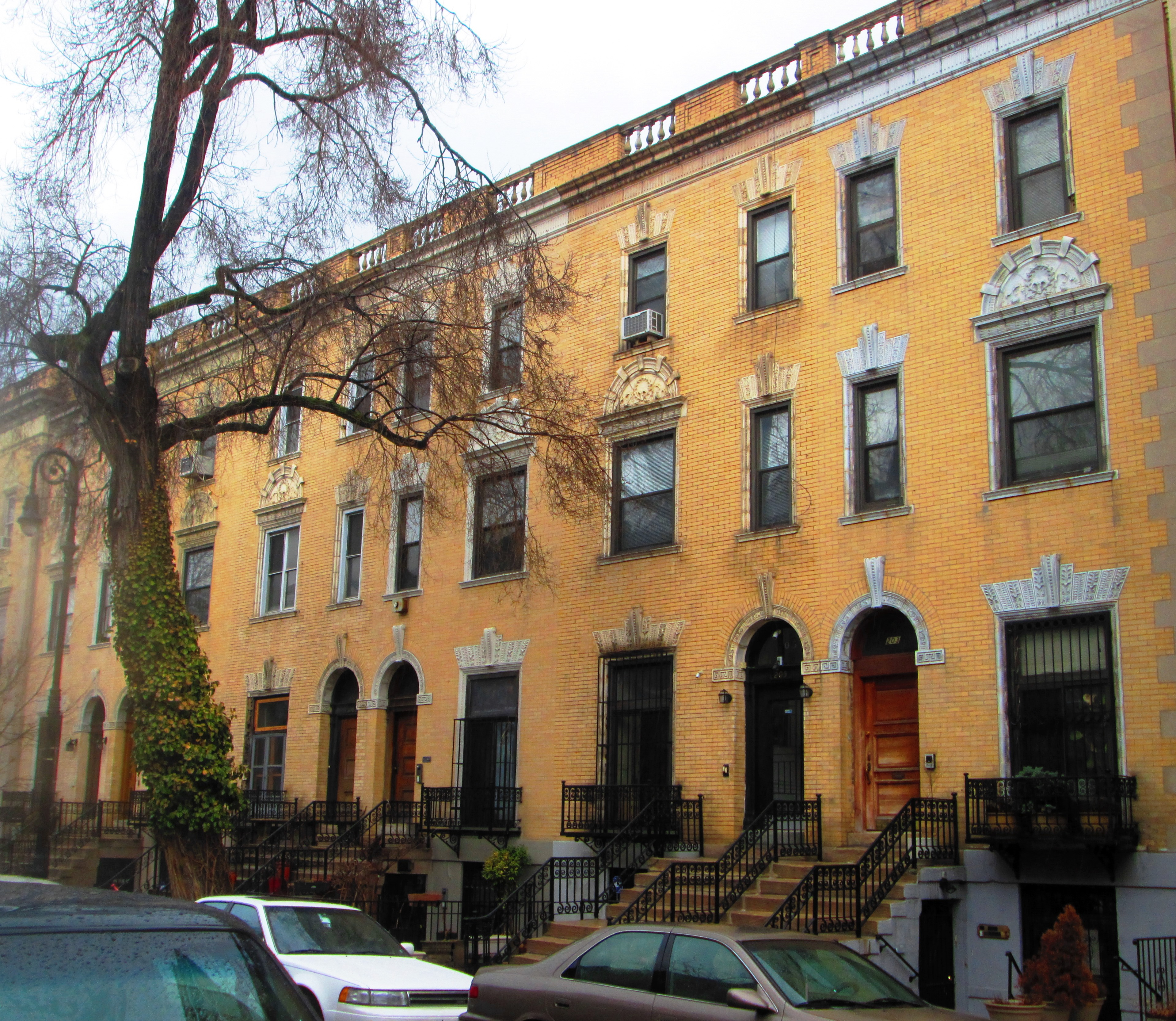 203 (right) - 211 (left) West 138th Street The St. Nicholas Historic District, known colloquially as "Striver's Row", is located on both sides of West 138th and West 139th Streets between Adam Clayton Powell Jr. Boulevard (Seventh Avenue) and Frederick Douglass Boulevard (Eighth Avenue) in the Harlem neighborhood of Manhattan, New York City. It consists of four sets of residential rowhouses designed by noted architects and built in 1891-93 by developer David H. King, Jr.: the red brick and brownstone buildings on the south side of West 138th Street and at 2350-2354 Adam Clayton Powell Jr. Boulevard were designed by James Brown Lord in the Georgian Revival style; the yellow brick and white limestone with terra cotta trim buildings on the north side of 138th and on the south side of 139th Street and at 2360-2378 Adam Clayton Powell Jr. Boulevard were designed in the Colonial Revival style by Bruce Price and Clarence S. Luce; the dark brick, brownstone and terra cotta buildings on the north side of 139th Street and at 2380 Adam Clayton Powell Jr. Boulevard were designed in the Italian Renaissance Revival style by Stanford White of the firm McKim, Mead & White. (Sources: Guide to NYC Landmarks (4th ed.) and AIA Guide to NYC (5th ed.))